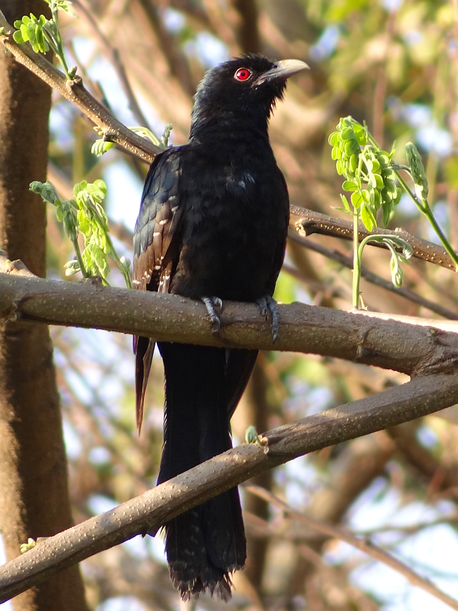 Asian Koel photographed in Mumbai, India.